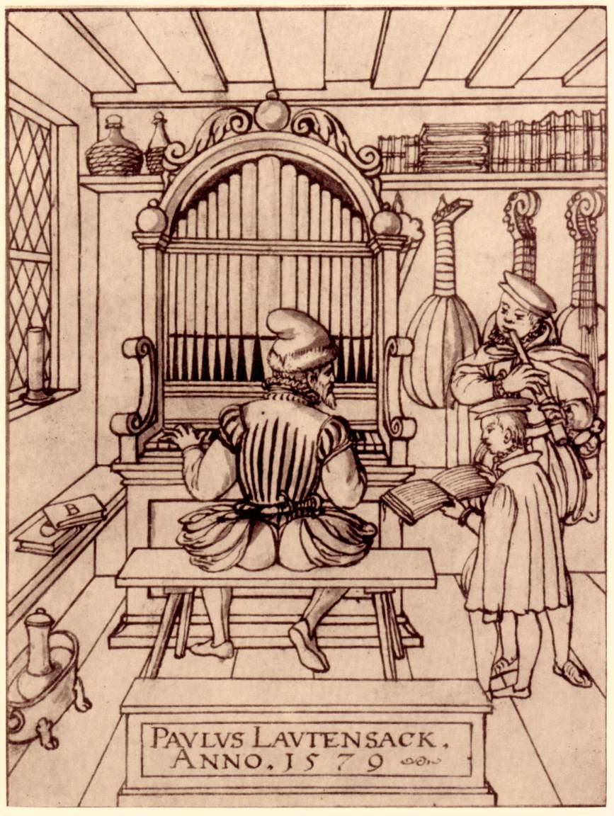 Paul (III.) Lautensack at his organ (Positiv without pedal)